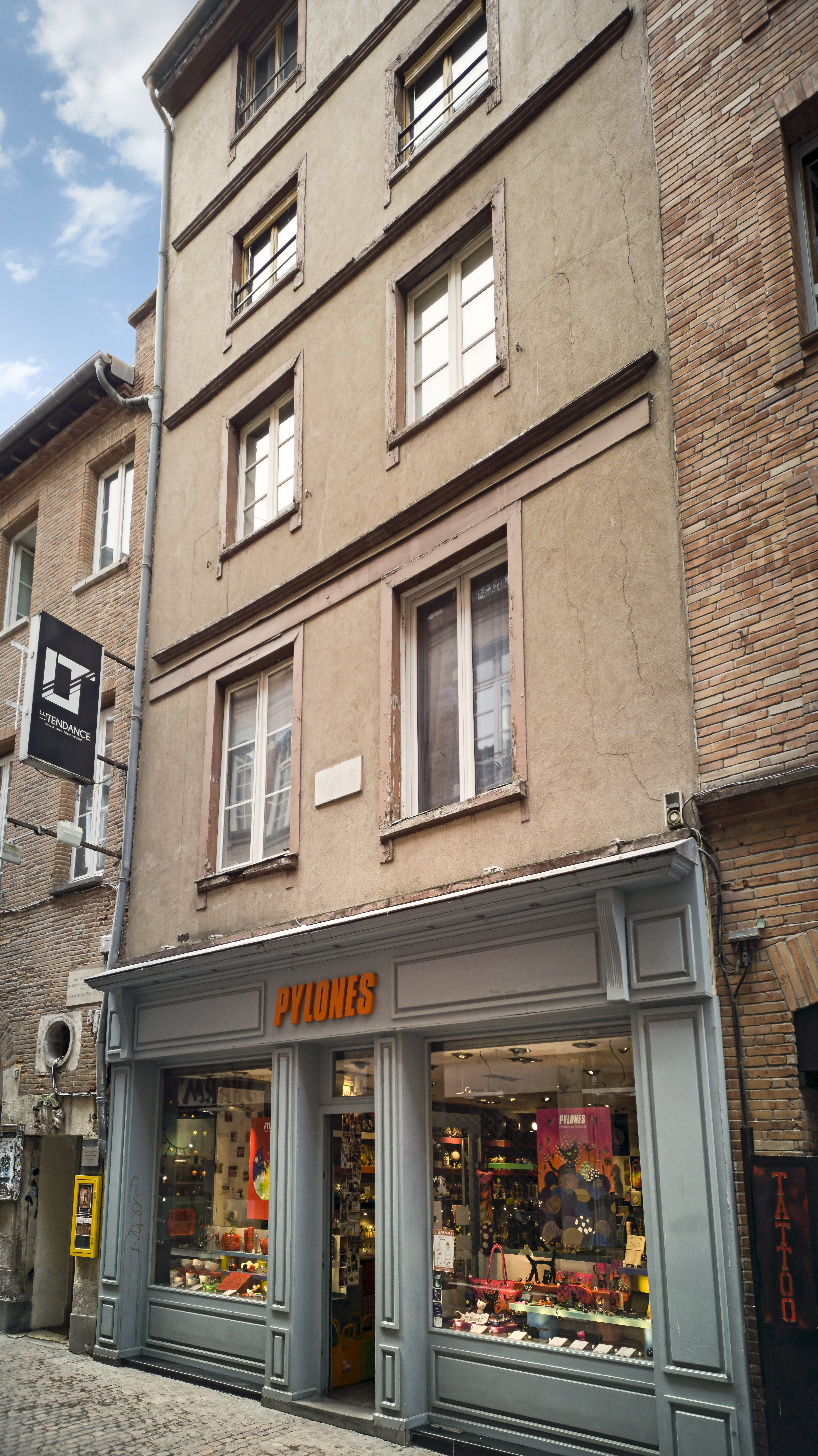 No 41 on Rue Saint-Rome in Toulouse, half-timbered building; Birthplace of Pierre-Baour Lormian.